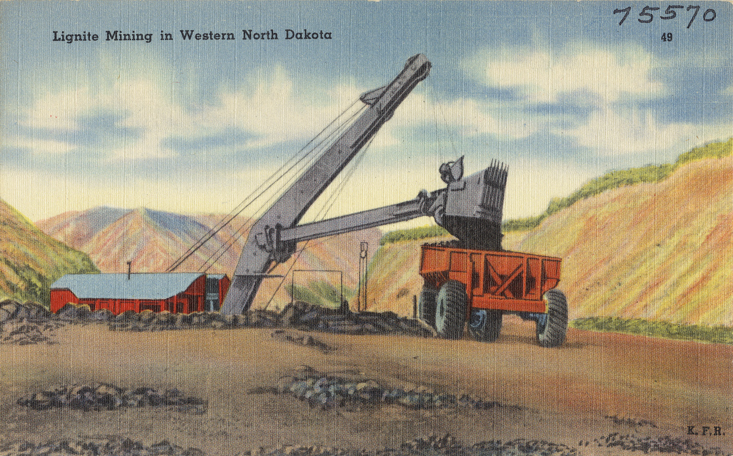 File name: 06_10_016502 Title: Lignite mining in Western North Dakota Created/Published: Tichnor Bros. Inc., Boston, Mass. Date issued: 1930 - 1945 (approximate) Physical description: 1 print (postcard) : linen texture, color ; 3 1/2 x 5 1/2 in. Genre: Postcards Subjects: Industrial facilities Notes: Collection: The Tichnor Brothers Collection Location: Boston Public Library, Print Department Rights: No known restrictions